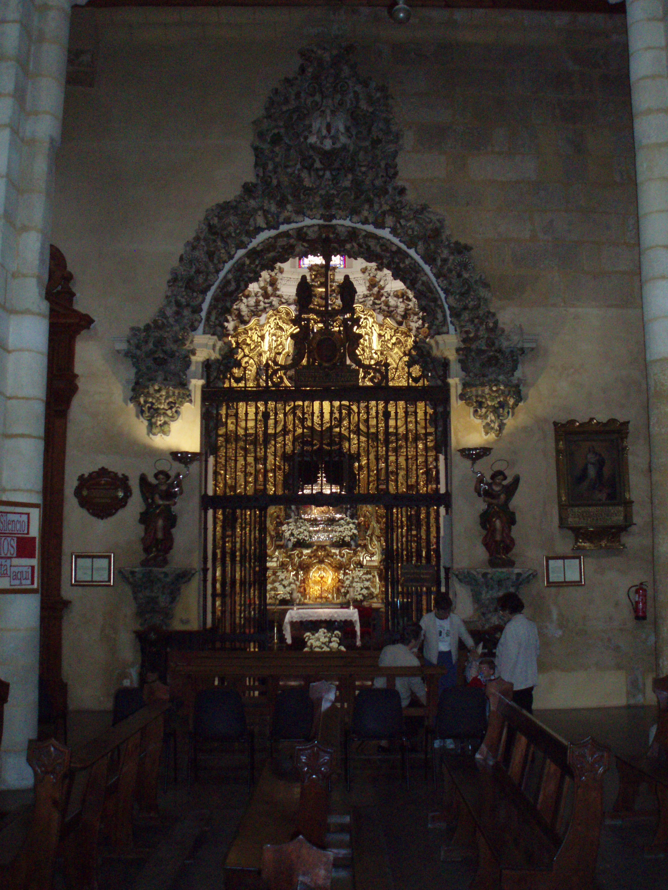 Church of Saint Peter, in the city of Córdoba. (Spain).